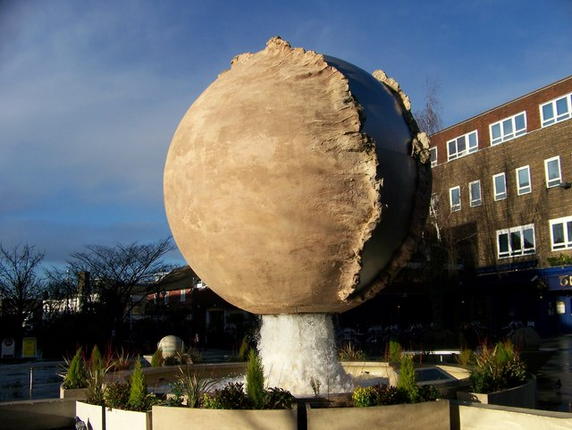 Rising Universe (Shelley Fountain) Percy Bysshe Shelley was born in Horsham at Field Place on August 4th 1792. In 1892, while the world’s press celebrated the centenary of his birth, the only recognition given to Shelley by Horsham was a plaque placed in Horsham’s parish church. However, by 1992 there were many events celebrating Shelley’s Bicentenary in Horsham and Warnham, and it was resolved to mark his contribution to art and culture in a permanent and tangible way. Sculptor Angela Conner produced a bold and imaginative sculpture which vividly conveys the modern non-conformist nature of Horsham's famous poet. This strikingly modern sculpture is an apt symbol for a man greatly admired for his revolutionary and visionary ideas. The globe section of the sculpture fills with water which brings it down the central column - then, as has been caught in this picture, the water is released and the globe rises back up the column.